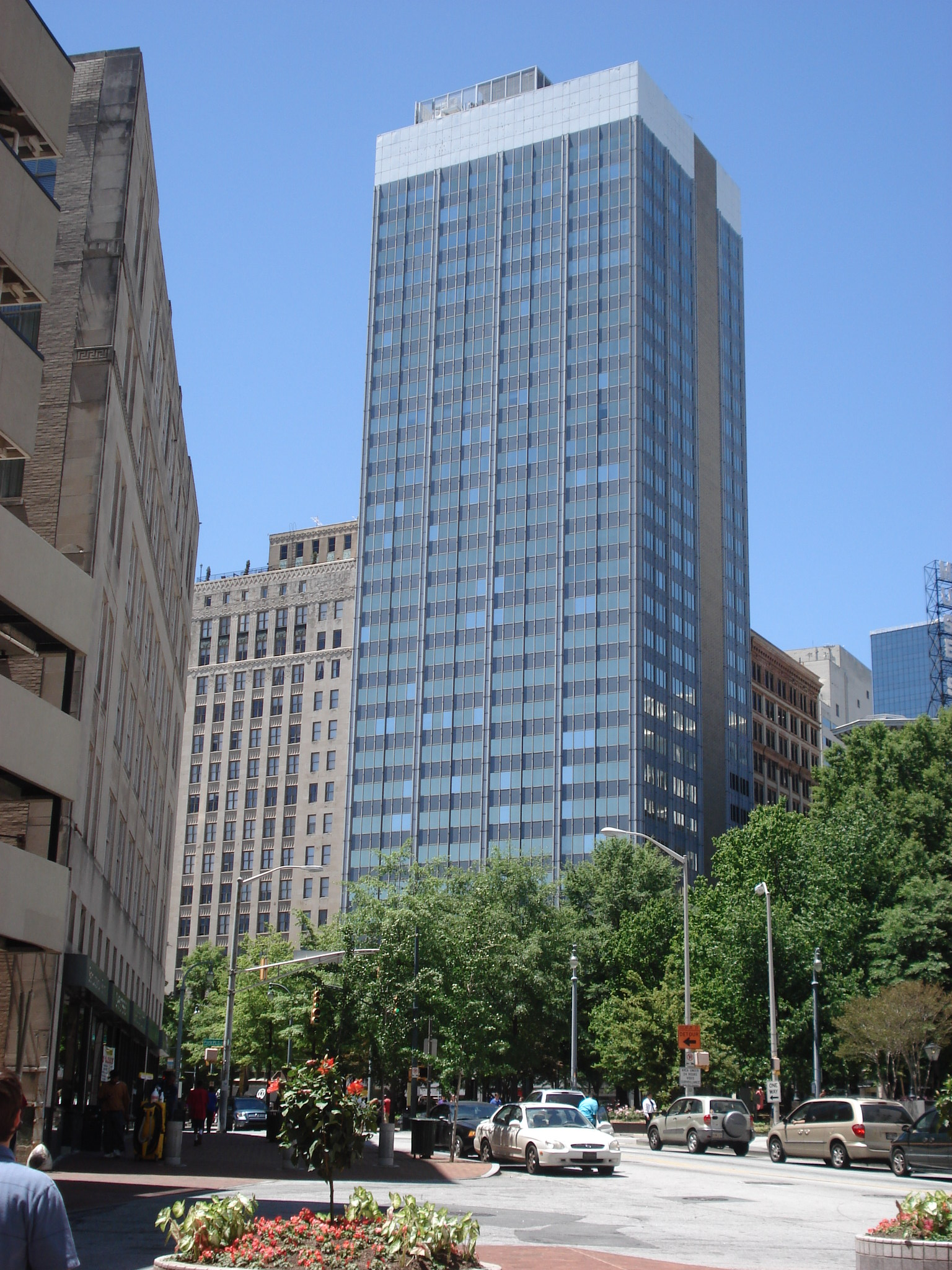 View of 34 Peachtree Street (One Park Tower) in Atlanta, Georgia from the east.